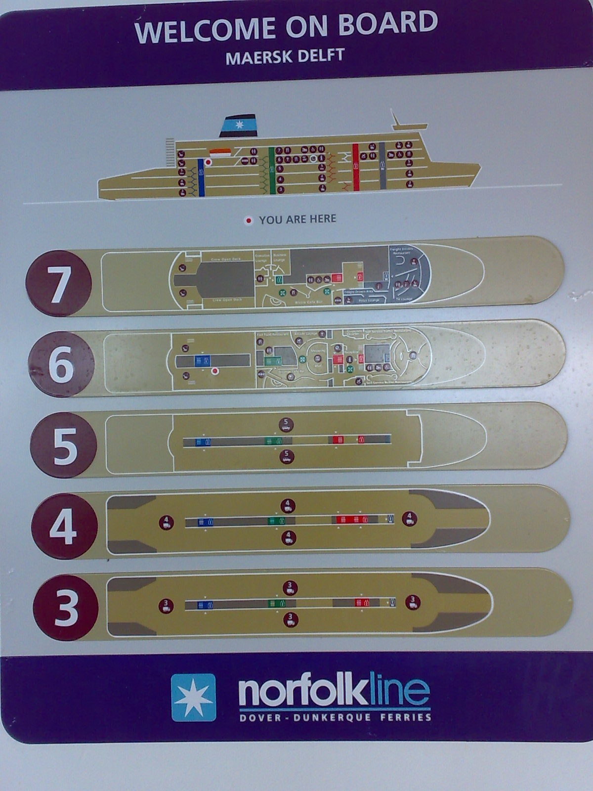 Map of the inside spaces of Maersk Delft.